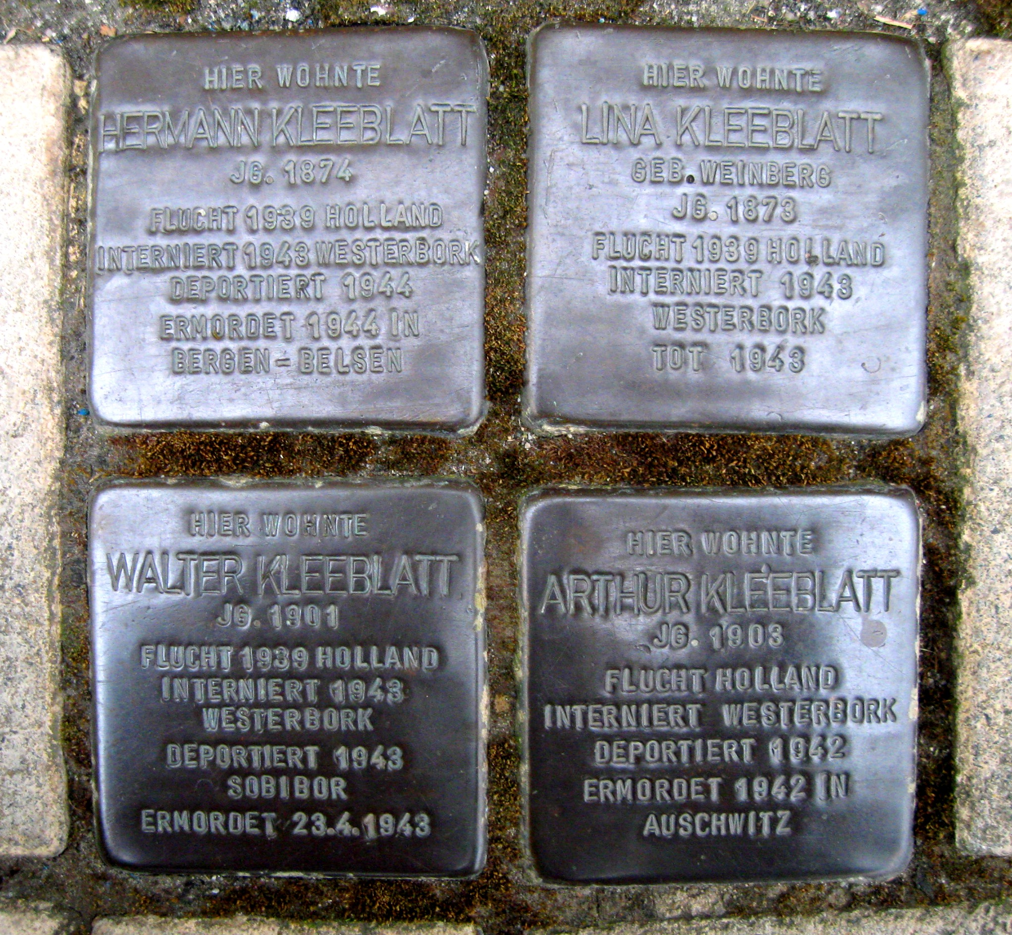 Stolpersteine in Dortmund, Lindenhorster Straße 237